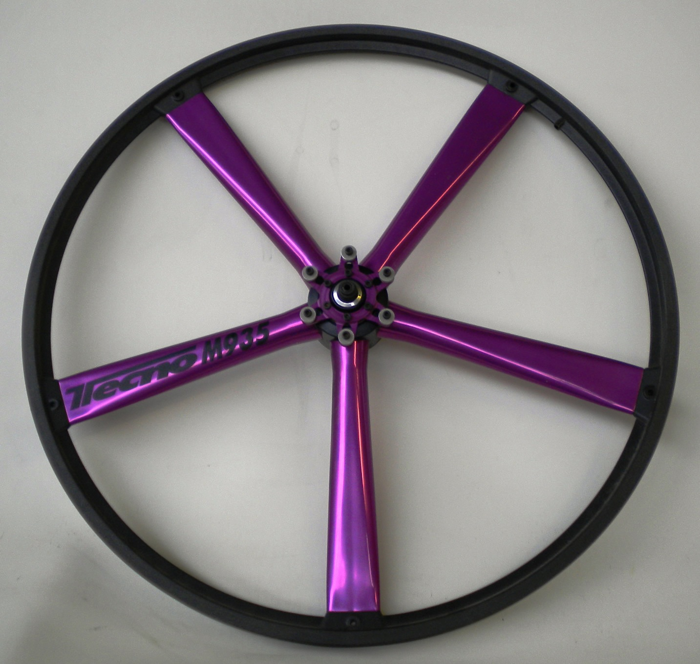 Tecno M935 Wheel